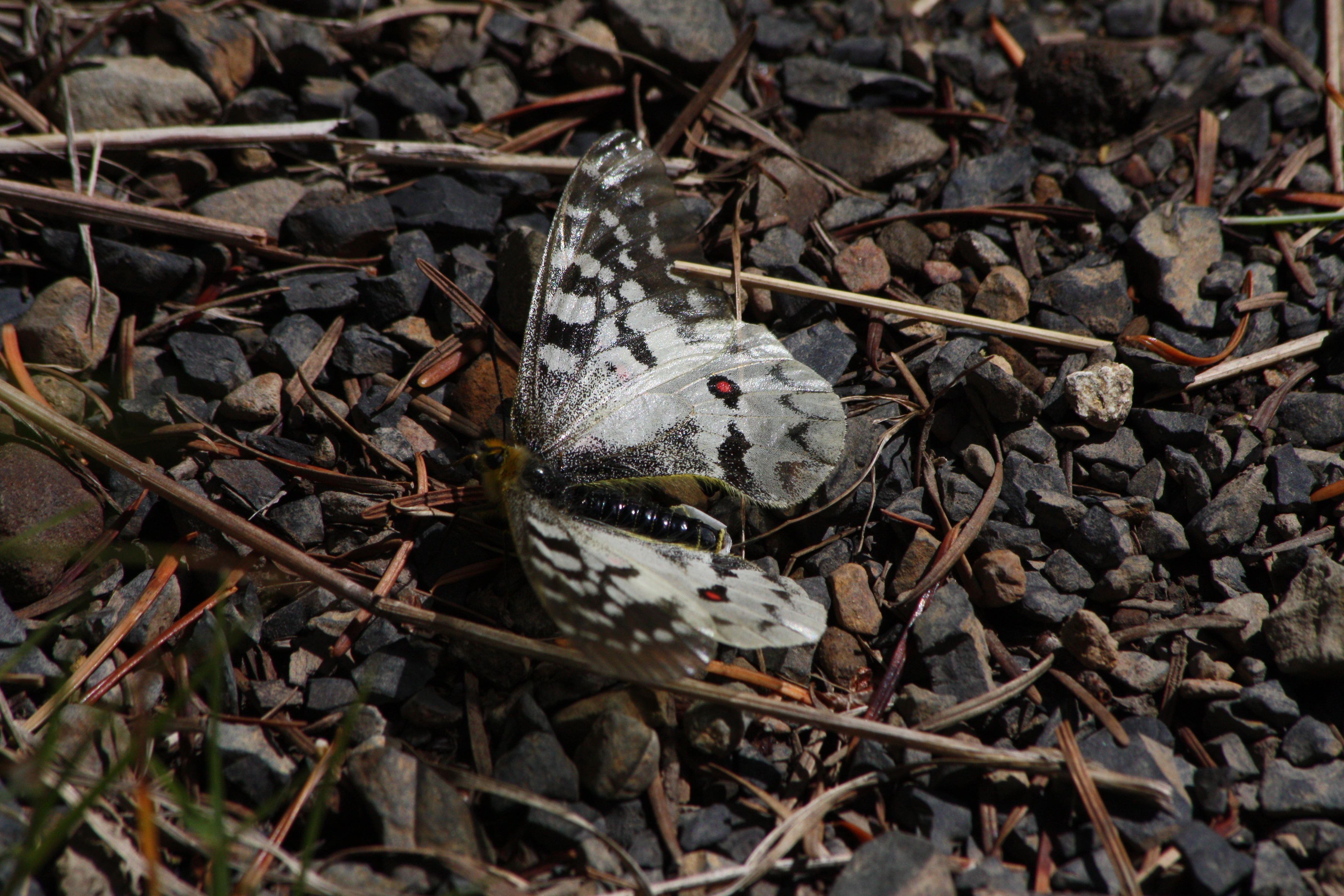 Clodius Parnassian